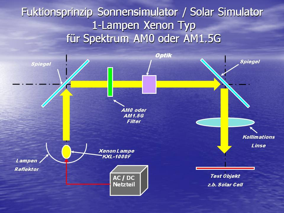 Funktionsweise eines Xenon Sonnensimulators / Solar Simulator AMO oder AM1.5G